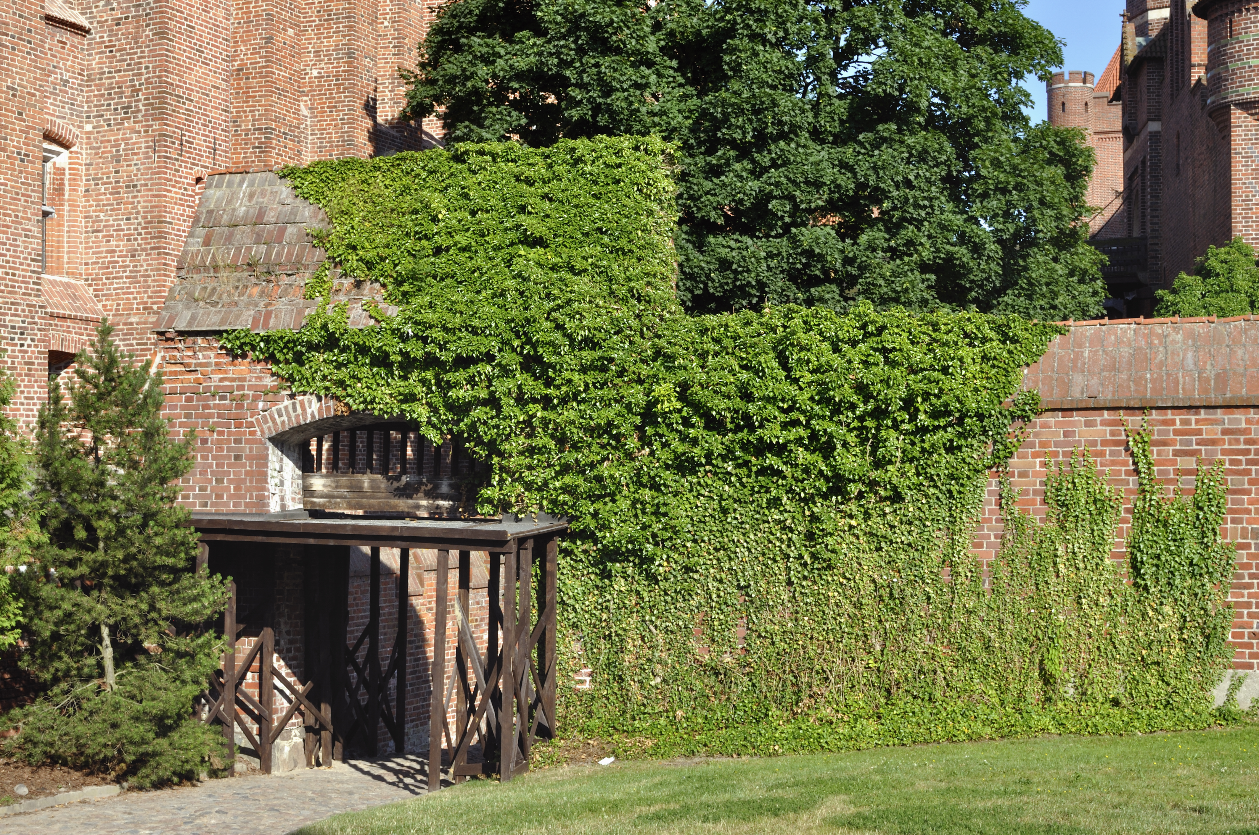 Picture taken in Malborg after Wikimania 2010 conference. Entrance to High Castle.